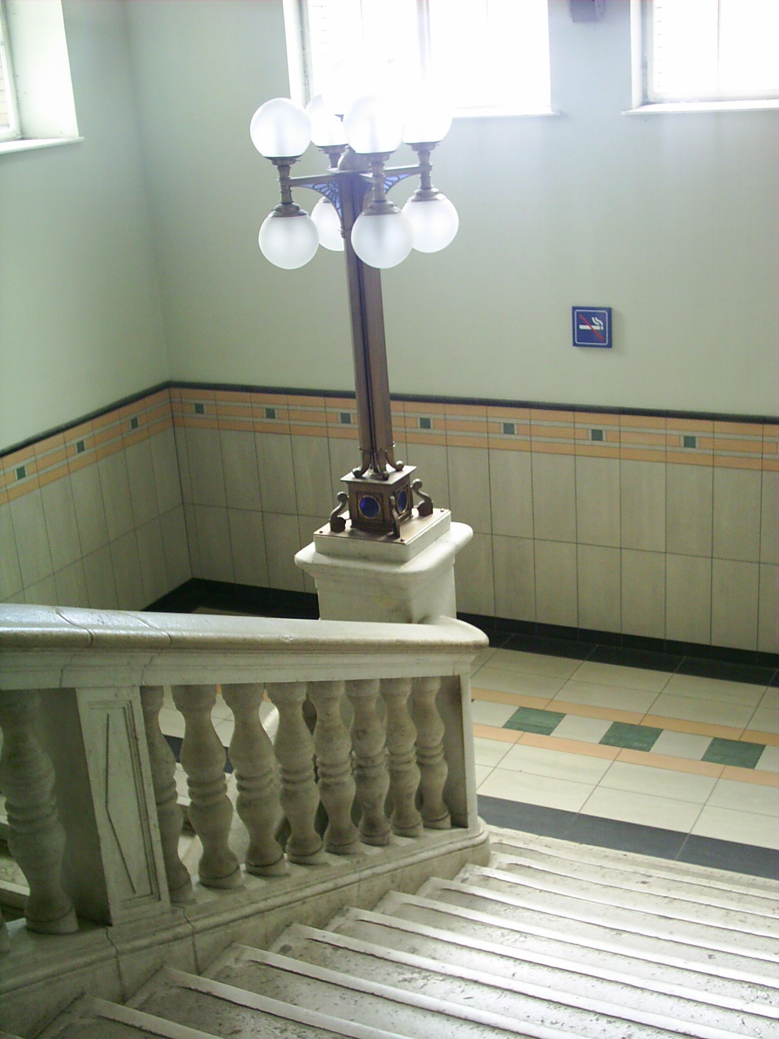 Deatil of the railway station in Szeged, Hungary.